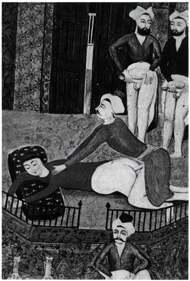 Detail of an Ottoman illustration from the book Sawaqub al-Manaquib depicting a young male being used by a group of men for anal sex.